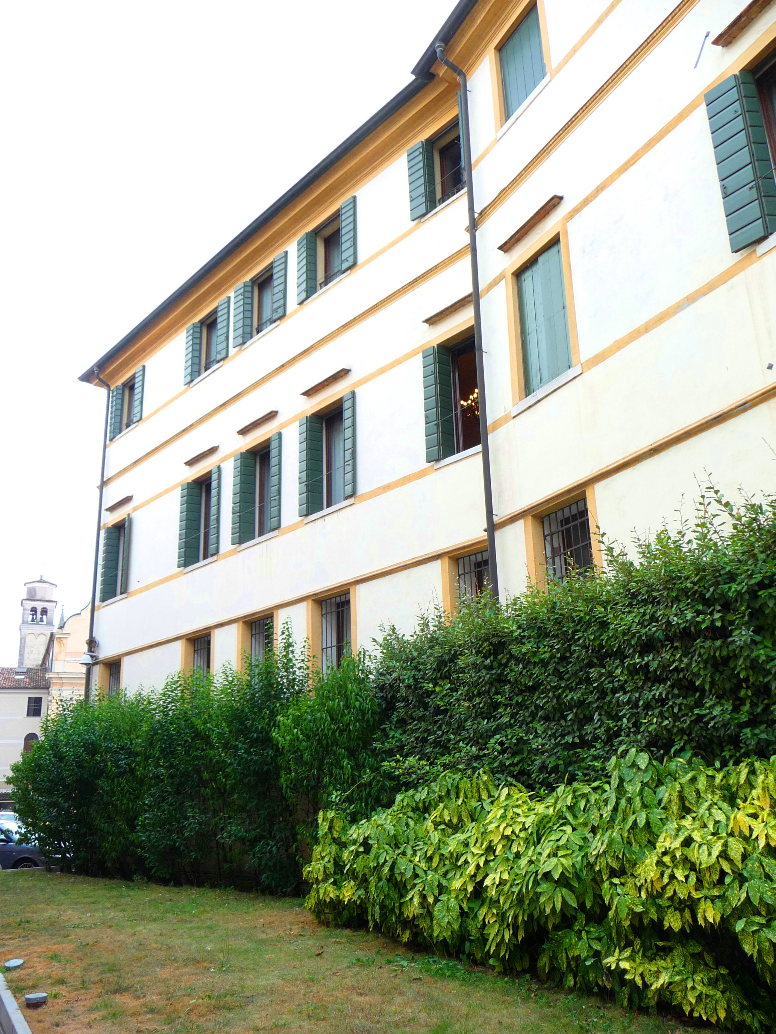 Side of Ca Spineda in Treviso (IT)